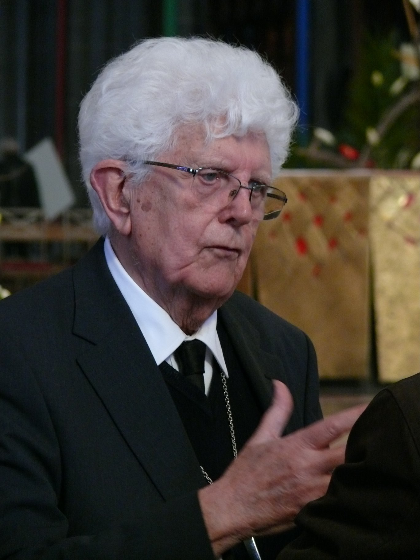 Former Bishop Jacques Noyer of Amiens, in Lille (Nord, France).